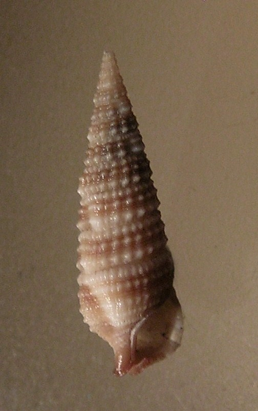 Rhinoclavis sordidula A. A. Gould, 1849, a sea snail from the family Cerithiidae; Philippines